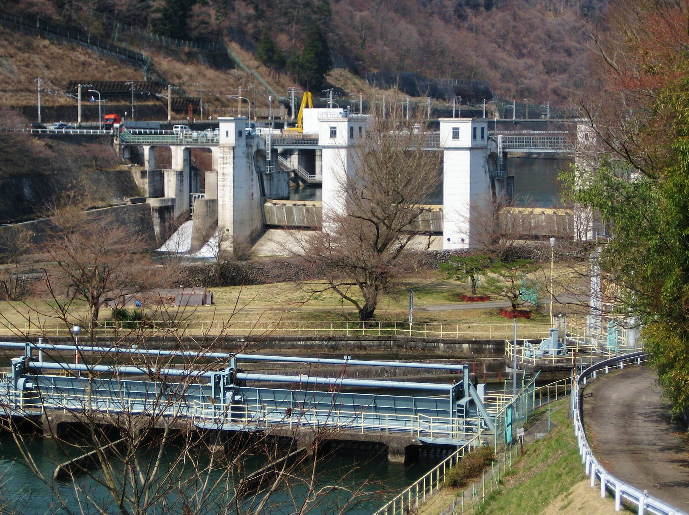 Ayado Dam.